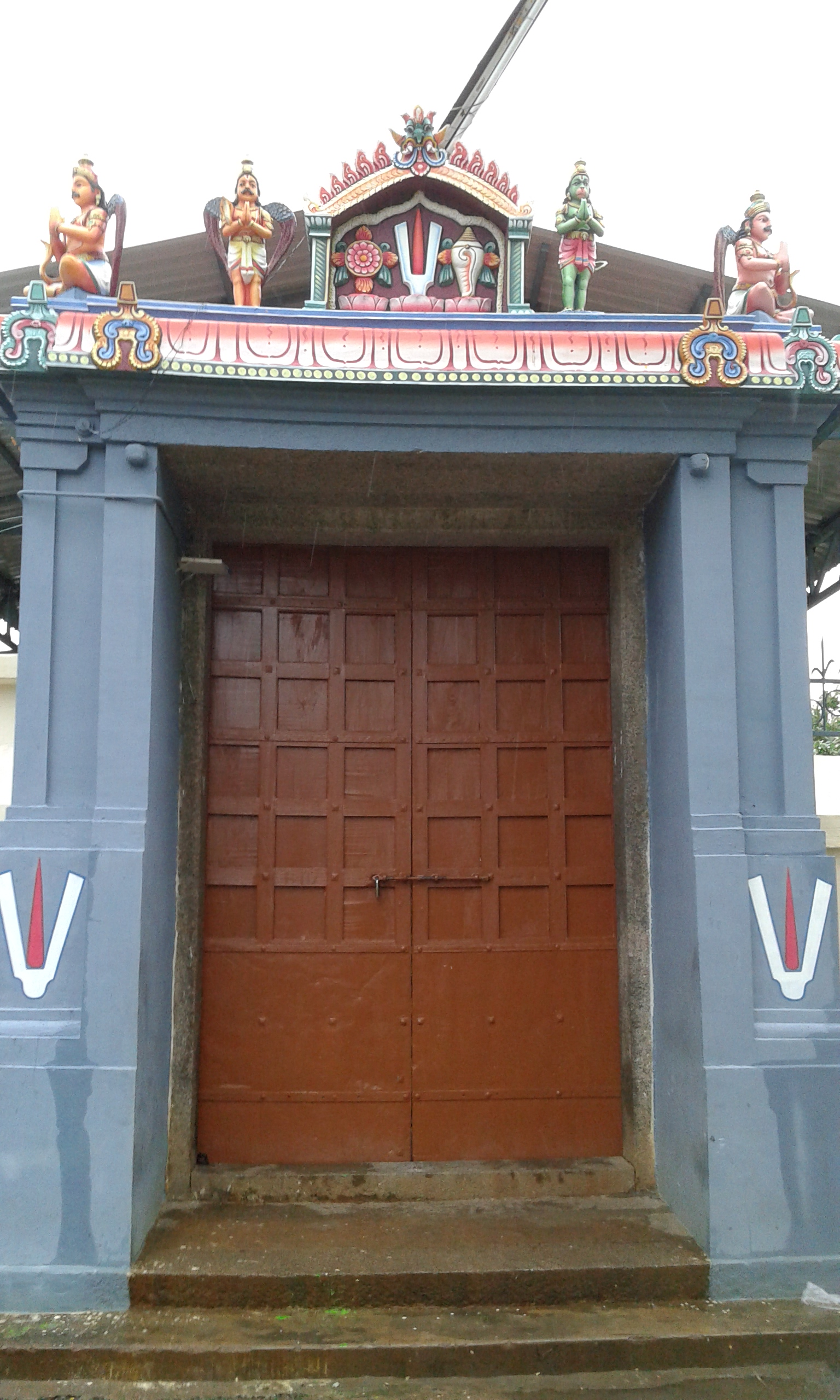 Thiruthevanartthogai